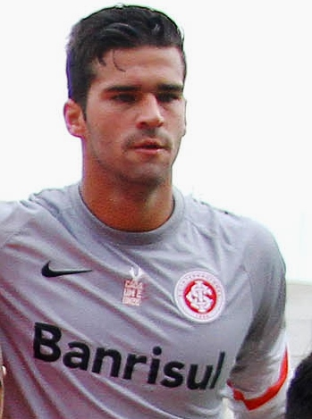 Alisson Becker